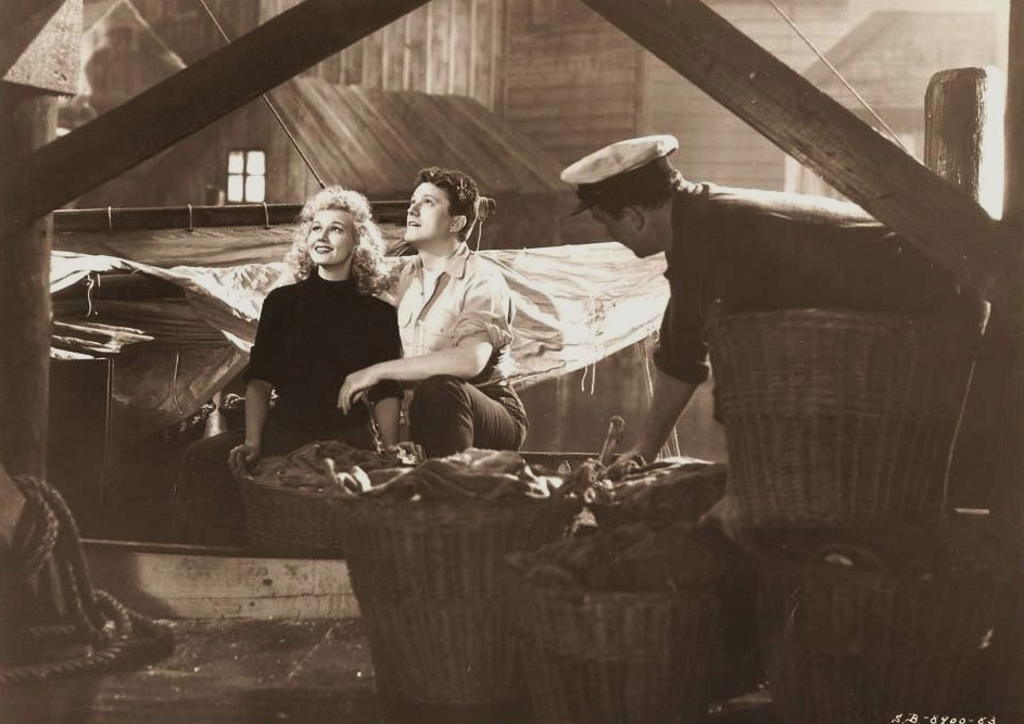 Virginia Mayo and Michael O'Shea in Jack London (1943) - cropped screenshot.